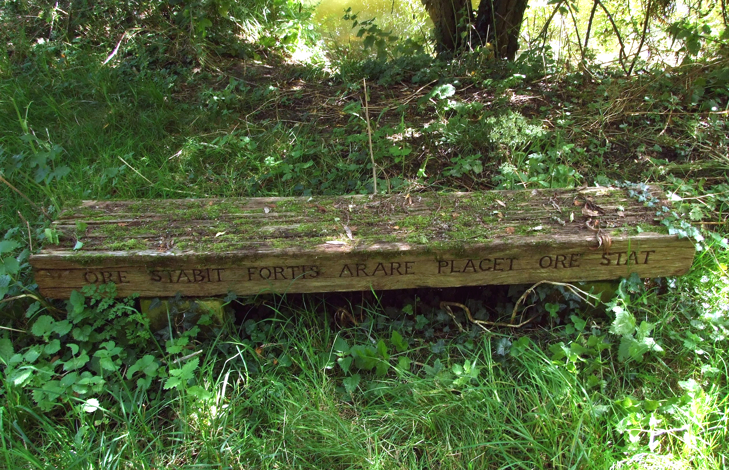 A bench in Oxford (UK) with an inscription: ORE STABIT FORTIS ARARE PLACET ORE STAT